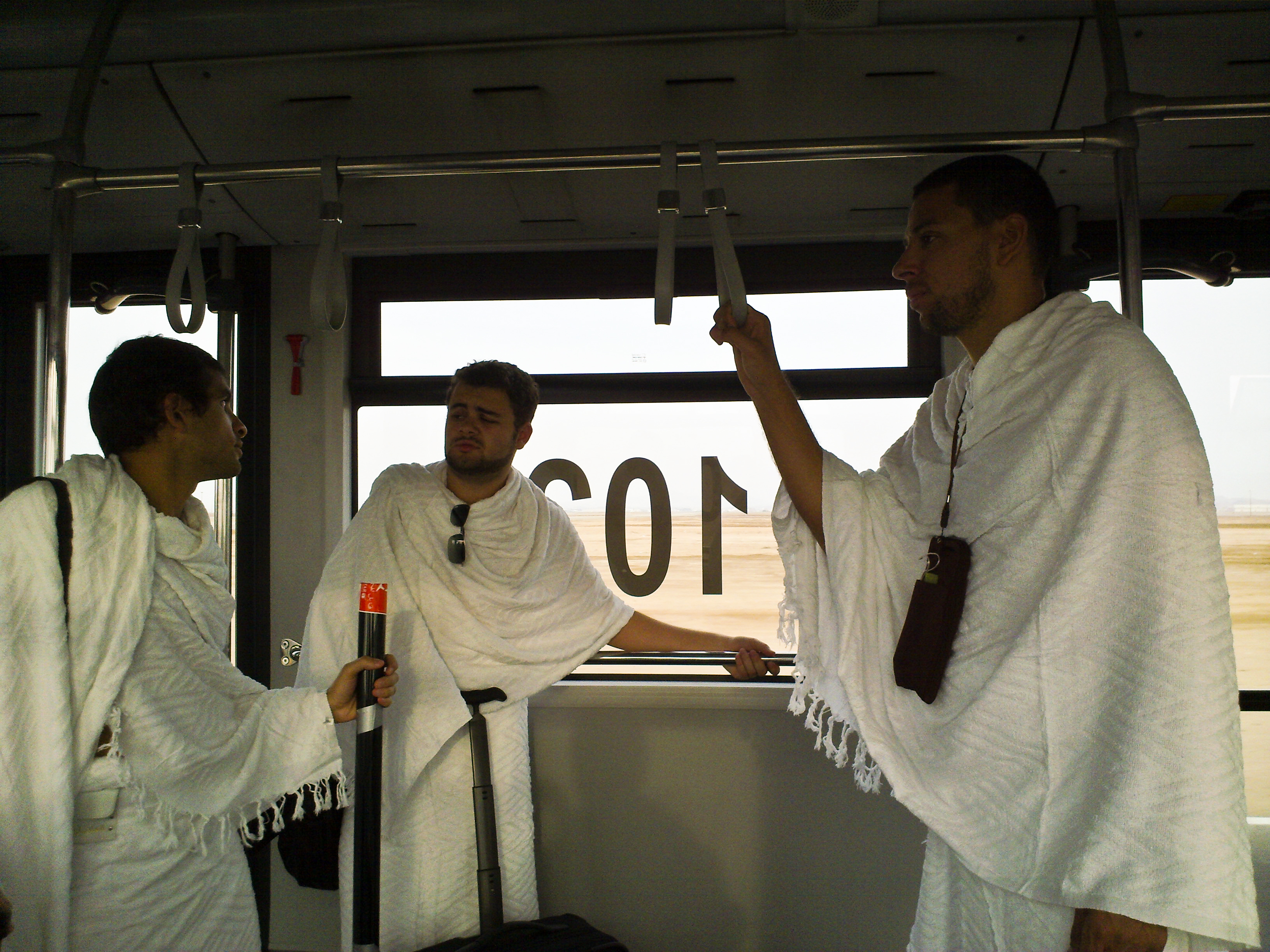 From left, Al Jazeera producers Abdullah Mussa, Jamal Elshayyal and correspondent Ayman Mohyeldin, transfer from the plane to the airport terminal dressed in ihram clothes.